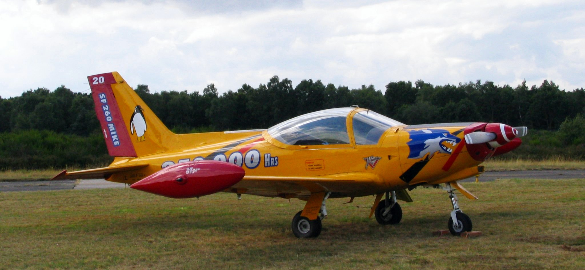 Military belgian elementary training aircraft Marchetti SF260